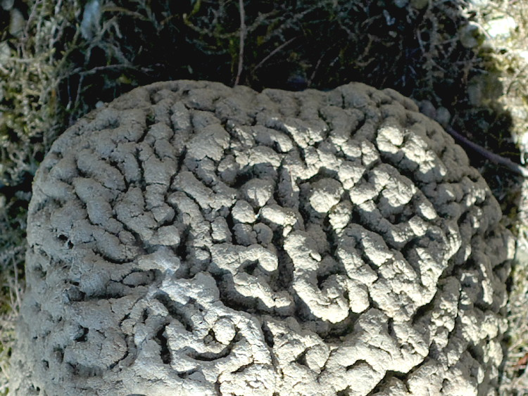 "Hirnstein", "Hirnstoa" = brainstone - limestone from lake "Chiemsee", surface covered with cauliflower-like lime-crust size: 17x14x8cm locality: lake "Chiemsee", Bavaria